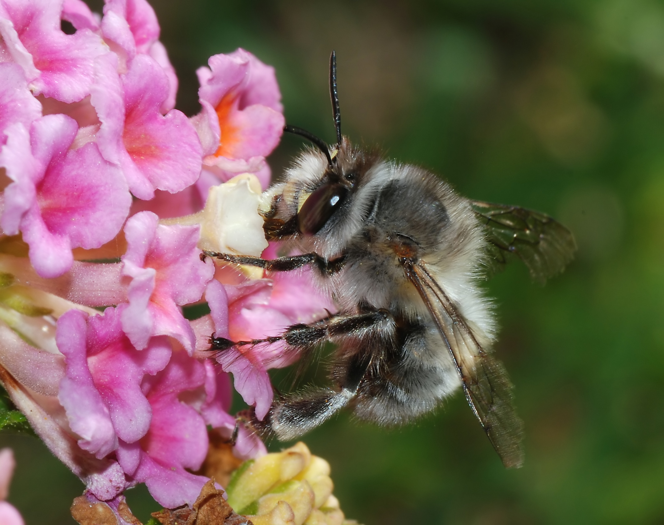 A solitary bee (Anthophora plumipes) collecting nectar in Lisboa. Camera: Nikon D80 with Tokina AF 100 macro and 35mm extension ring. Exposure: manual, 1/100, F/16, ISO 100.